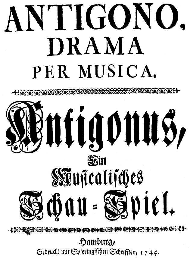 Paolo Scalabrini - Antigono - titlepage of the libretto - Hamburg 1744